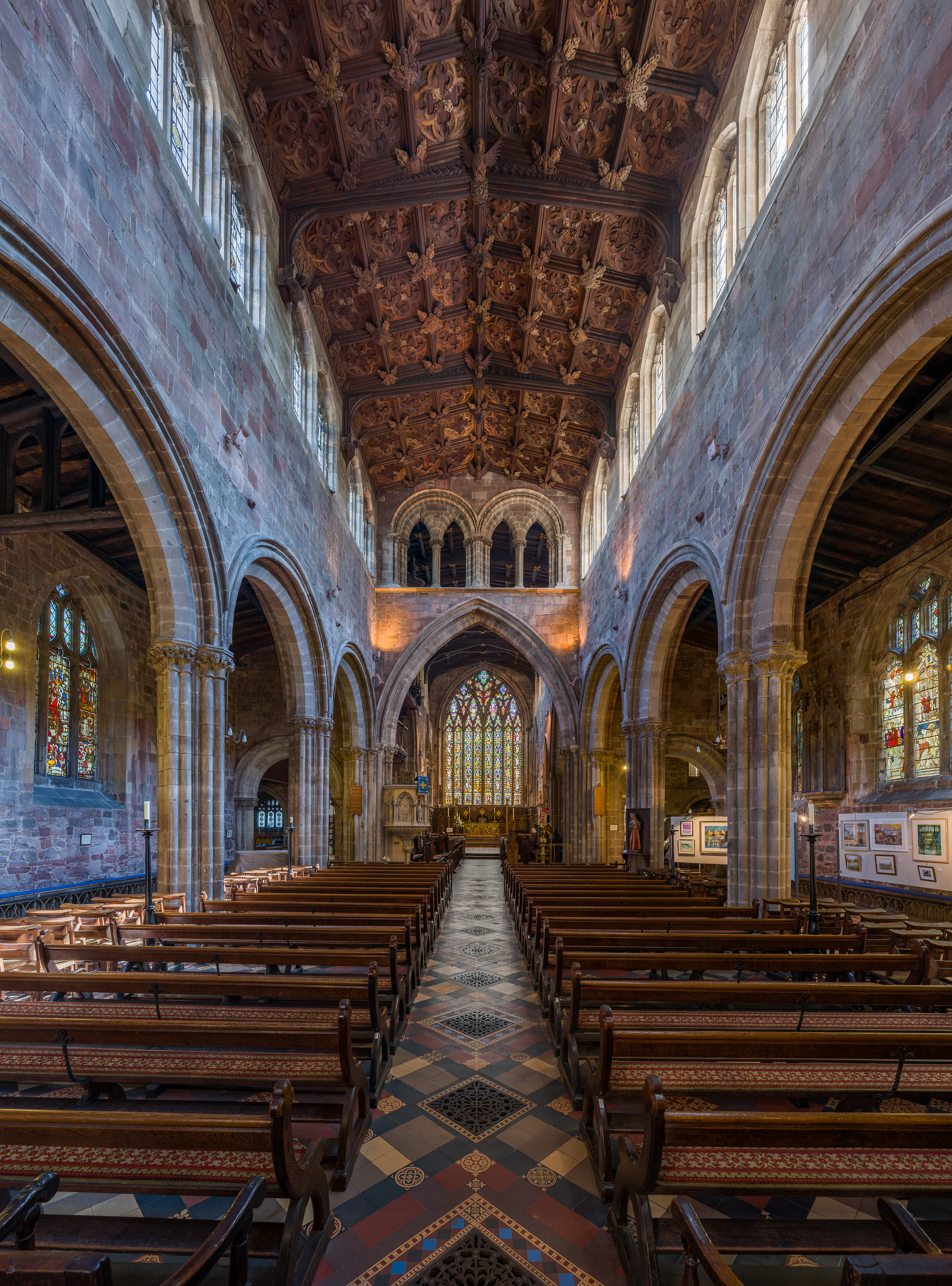 The nave of St Mary's Church, Shrewsbury, Shropshire, England.